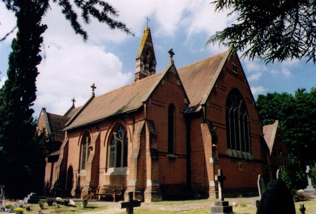 Parish church of St John the Baptist, Waterloo Road, Crowthorne, Berkshire, seen from the southeast